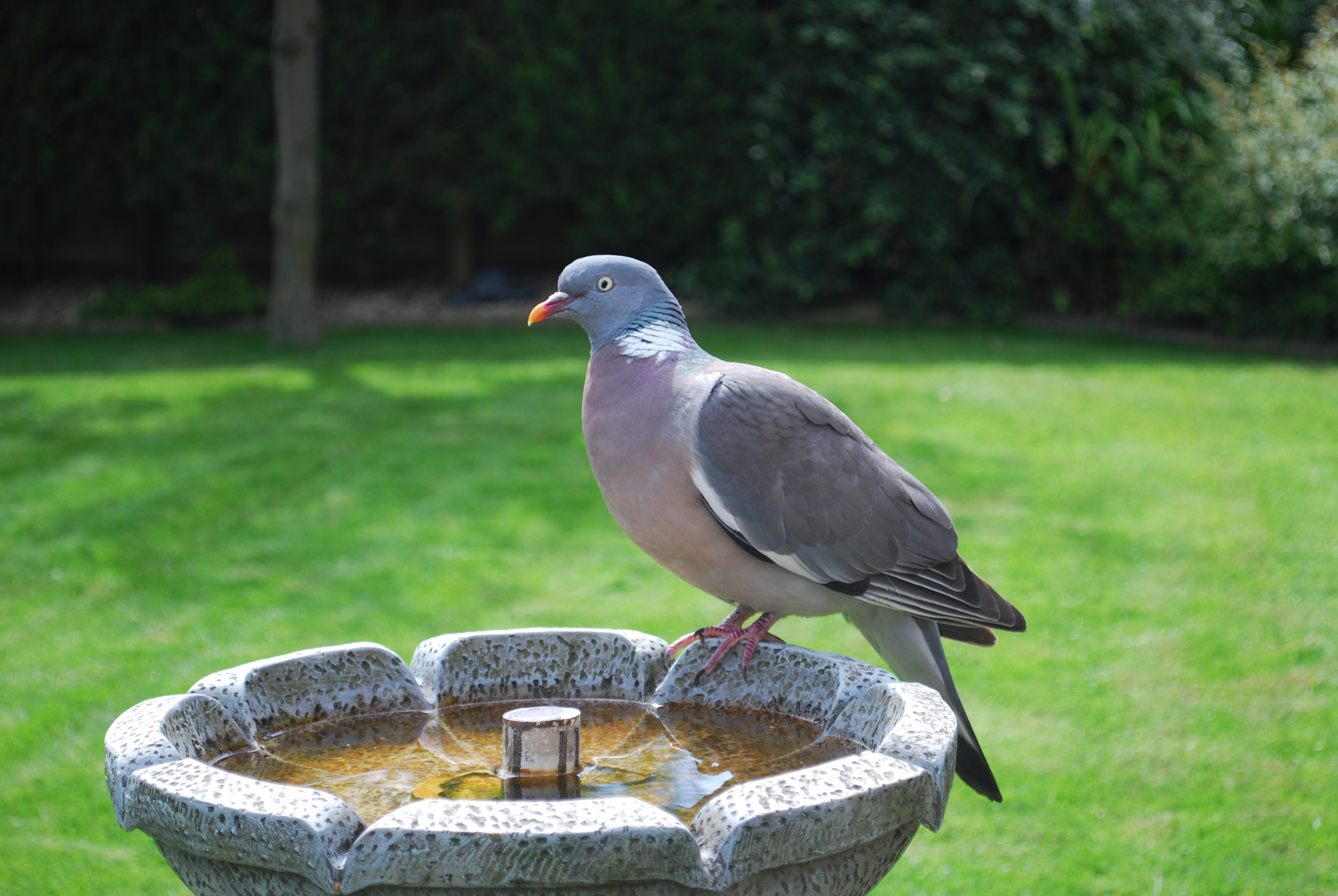 A Wood Pigeon perching on a garden fountain in Wolverhampton, West Midlands, England.